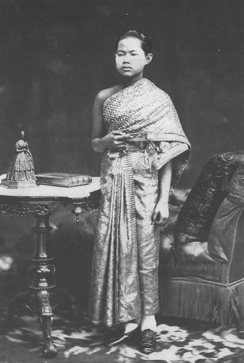 Queen Sunandha Kumariratana, Queen consort of King Chulalongkorn of Siam.